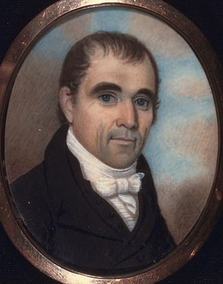 Portrait of Robert Thorpe (1764-1836)